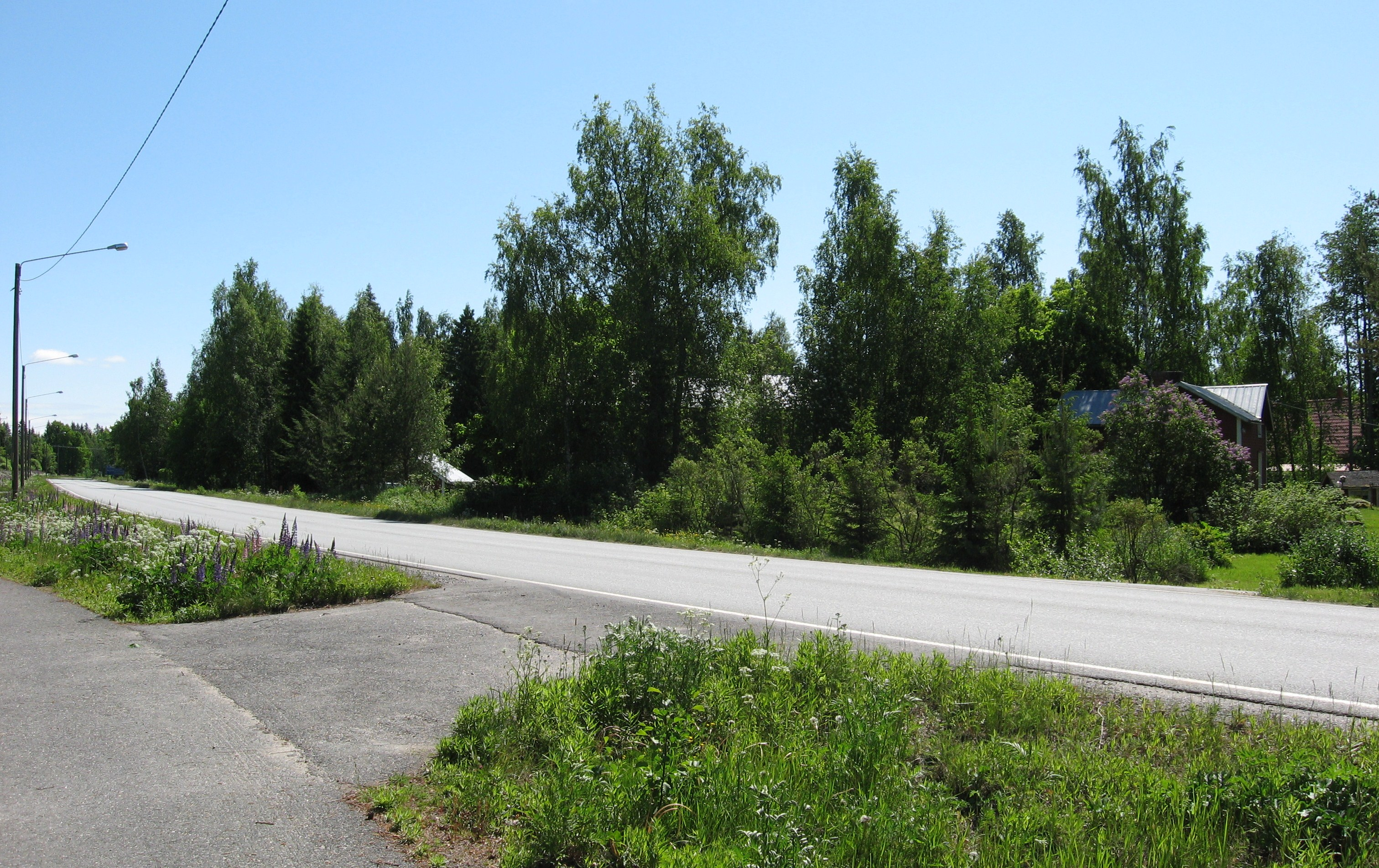 Grönvik village and the Alskat road in Korsholm, Finland.